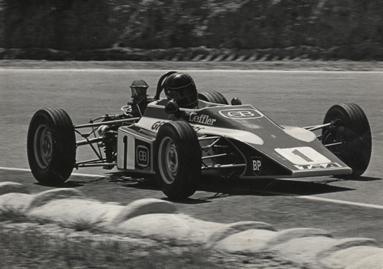 Bowin P6 Formula Ford, driven by John Leffler.